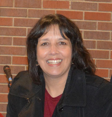 Salem Mayor Kimberly Driscoll at the opening of the new Salem Intermodal Facility in November 2014